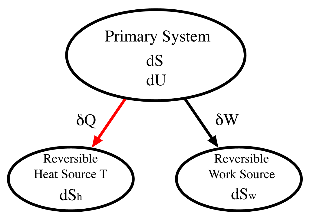 Diagram representing three systems used in the derivation of the maximum work theorem: The primary system, the reversible heat source, and the reversible work source.